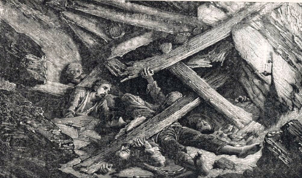 Original caption: "FALLING-IN OF A MINE."